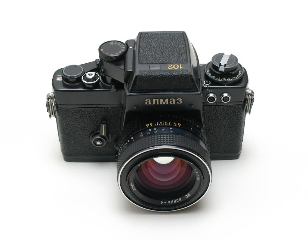 Almaz-102 camera by LOMO